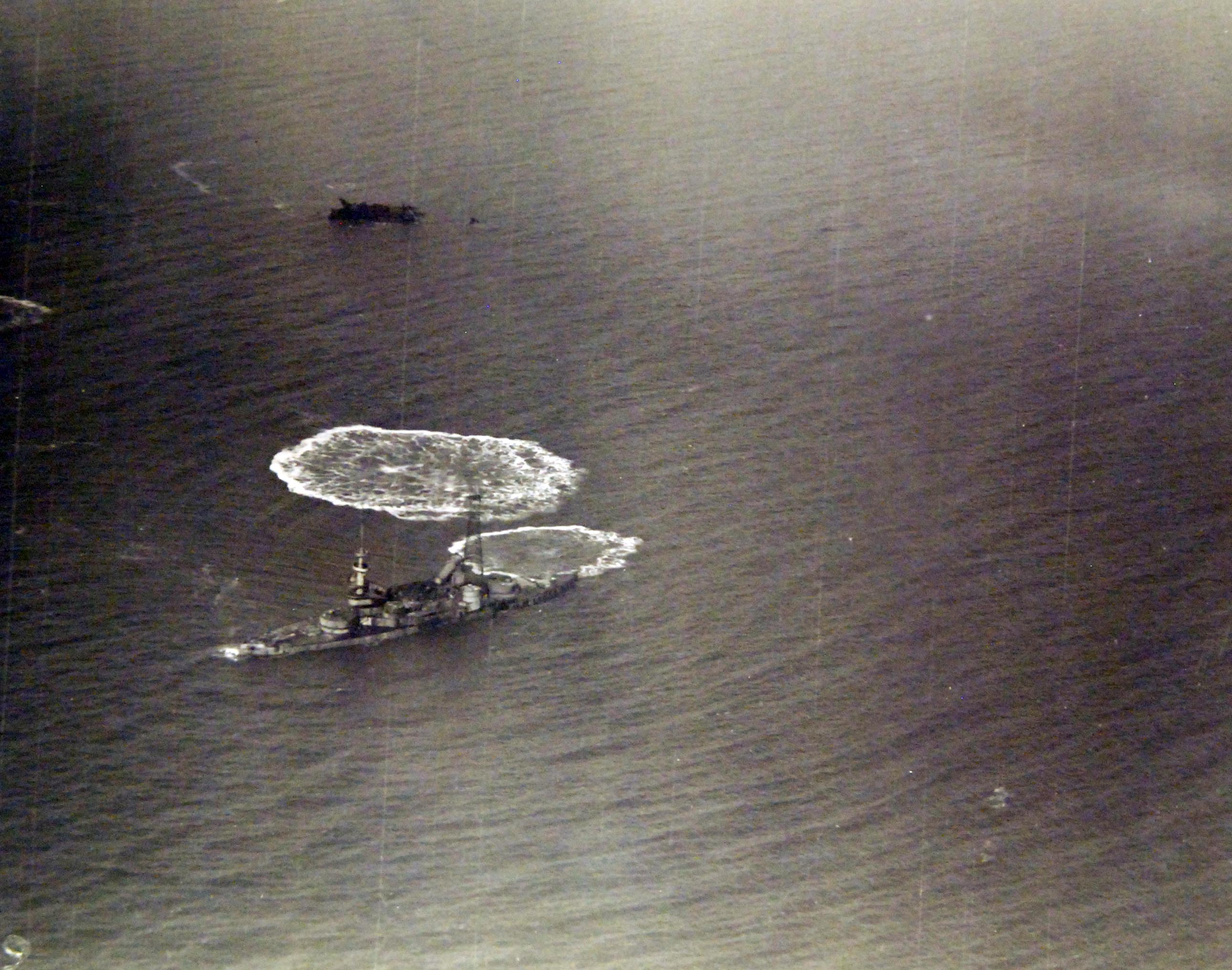 Lot-6089-3: USS Indiana (Battleship #1), damage following the General William “Billy” Mitchell aerial tests. Bombing Tests. Photographed April 21, 1921. Mitchell Collection. Courtesy of the Library of Congress. (2017/10/27).